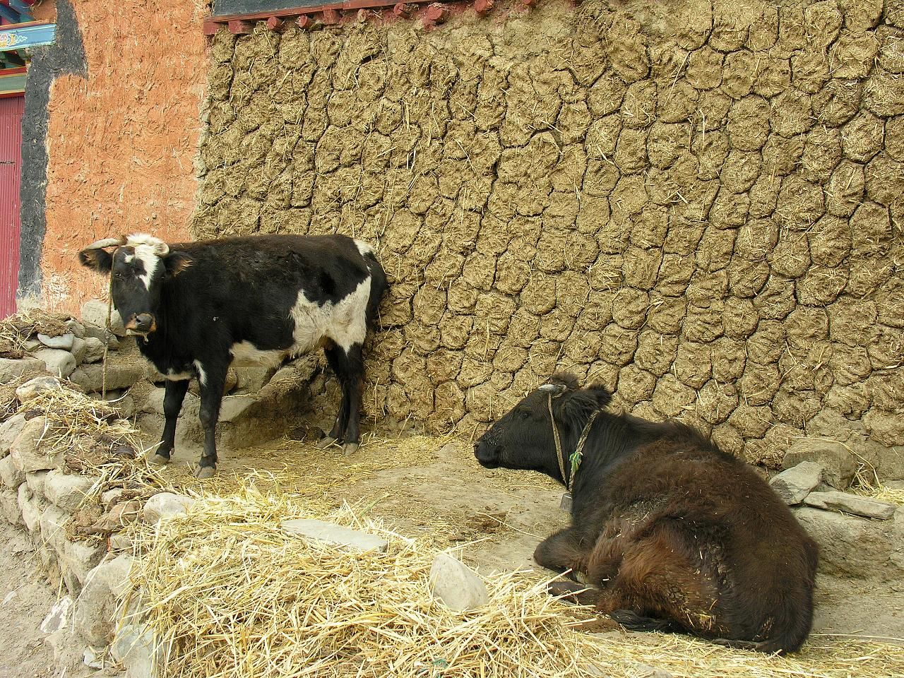 The wall is covered with cow dung but it did not smell it is putted ther to dry and to be used for fuel when it is cold.